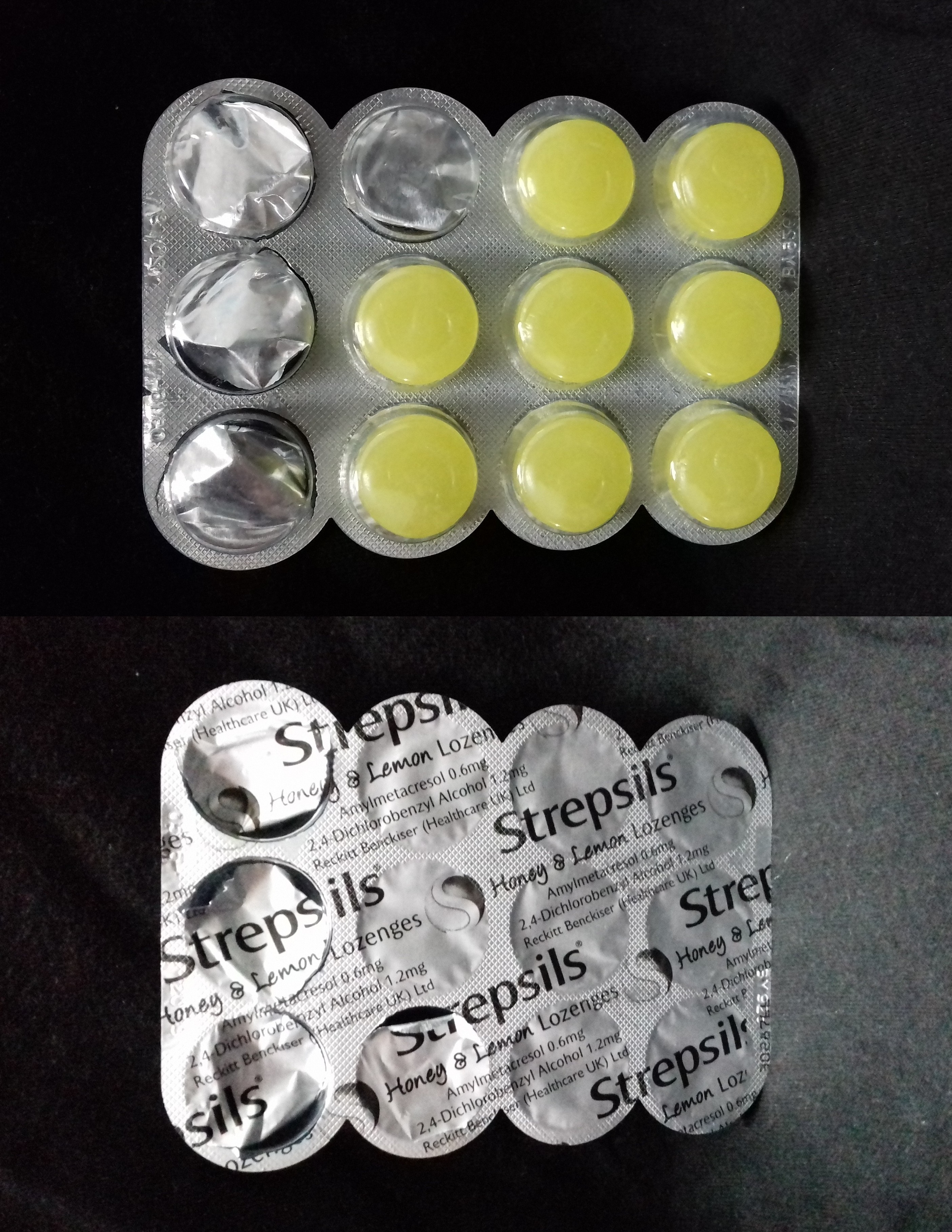 Strepsils throat lozenges as sold in Egypt.